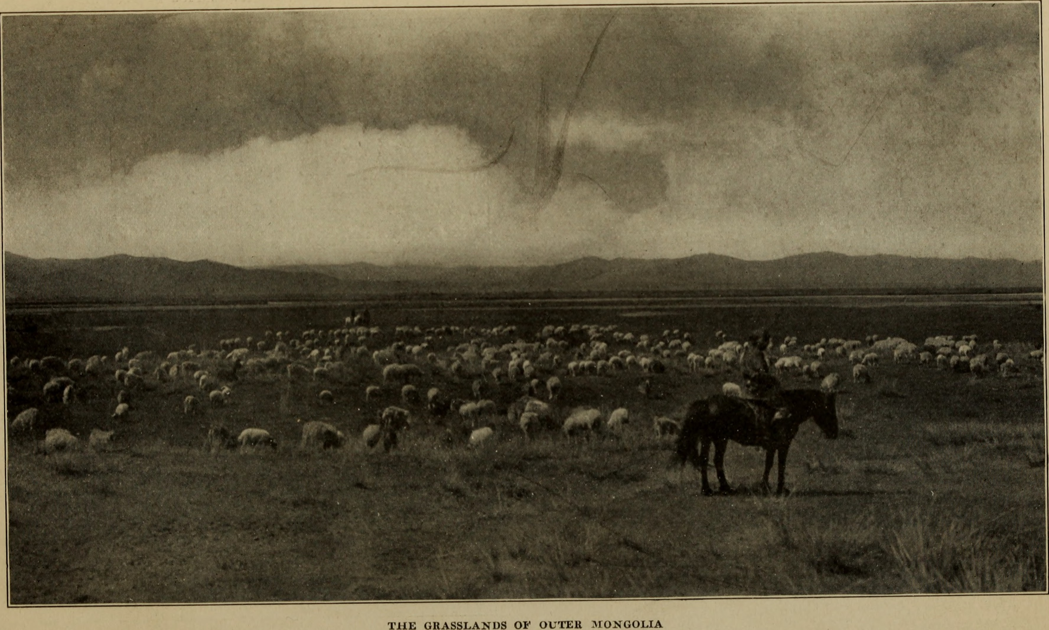 Title: Across Mongolian plains; a naturalist's account of China's "great northwest", by Roy Chapman Andrews ... photographs by Yvette Borup Andrews .. Year: 1921 (1920s) Authors: Andrews, Roy Chapman, 1884-1960 Subjects: Zoology; Hunting Publisher: New York, London, D. Appleton and company Text Appearing Before Image: ' Text Appearing After Image: '